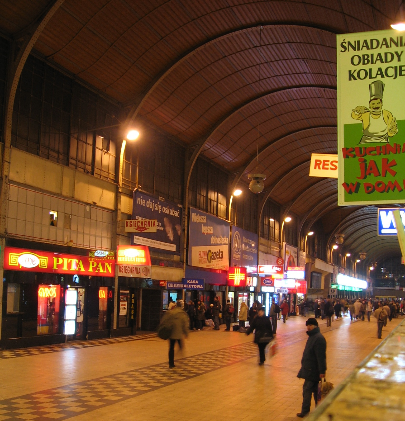 Wrocław, Poland Central train station, the hall